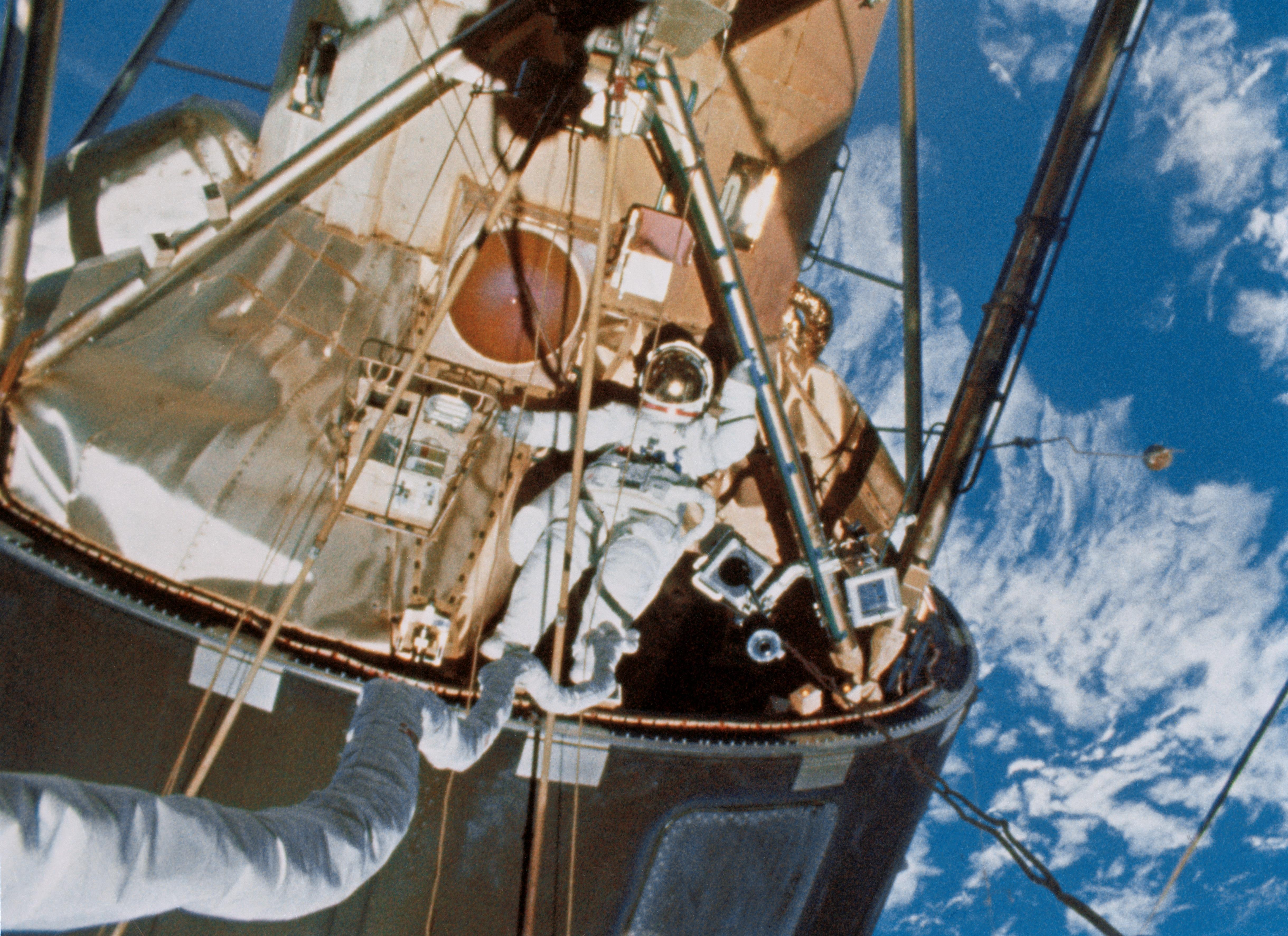 Skylab -- February 1974 Scientist-astronaut Edward G. Gibson has just exited the Skylab extravehicular activity hatchway. Astronaut Gerald P. Carr, Skylab 4 commander, took this picture during the final Skylab spacewalk that took place on Feb. 3, 1974. Carr was above on the Apollo Telescope Mount when he shot this frame of Gibson. Note Carr's umbilical/tether line extending from inside the space station up toward the camera. Astronaut William R. Pogue, Skylab 4 pilot, remained inside the space station during the spacewalk by Carr and Gibson.